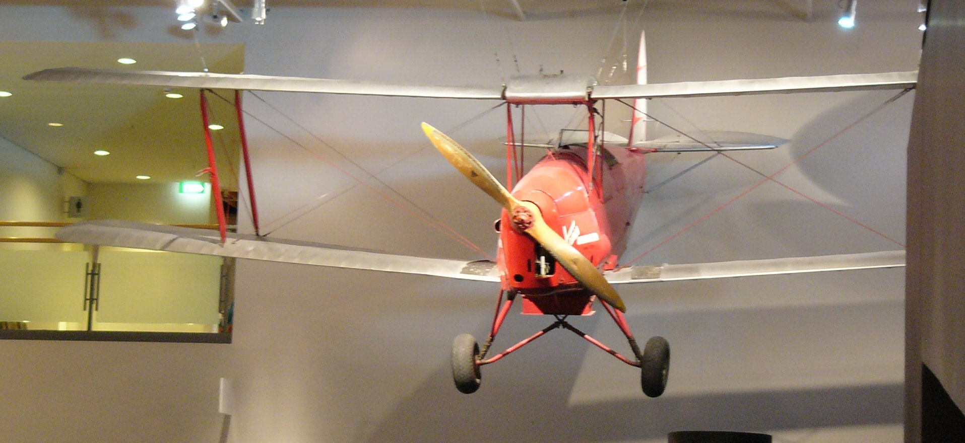 Photos taken at TePapa, Museum of New Zealand, Wellington